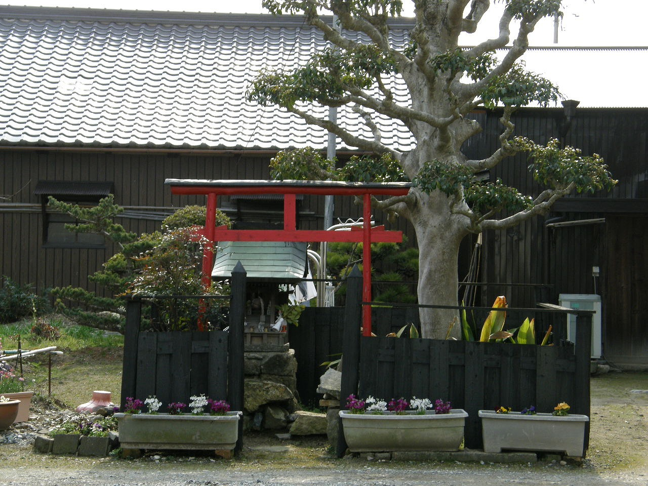 KAMIMUSUBI BREWERY CO.,LTD3275513 神結酒造裏の祠と樫の木